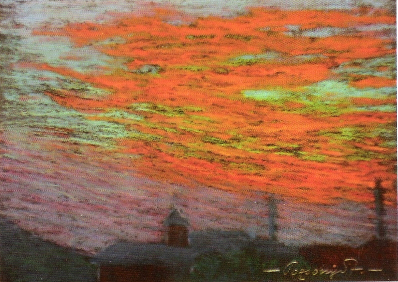 This work depicts a sunset. Executed by Jenő Pozsonyi (1885-1936). pastel 24 x 19 cm